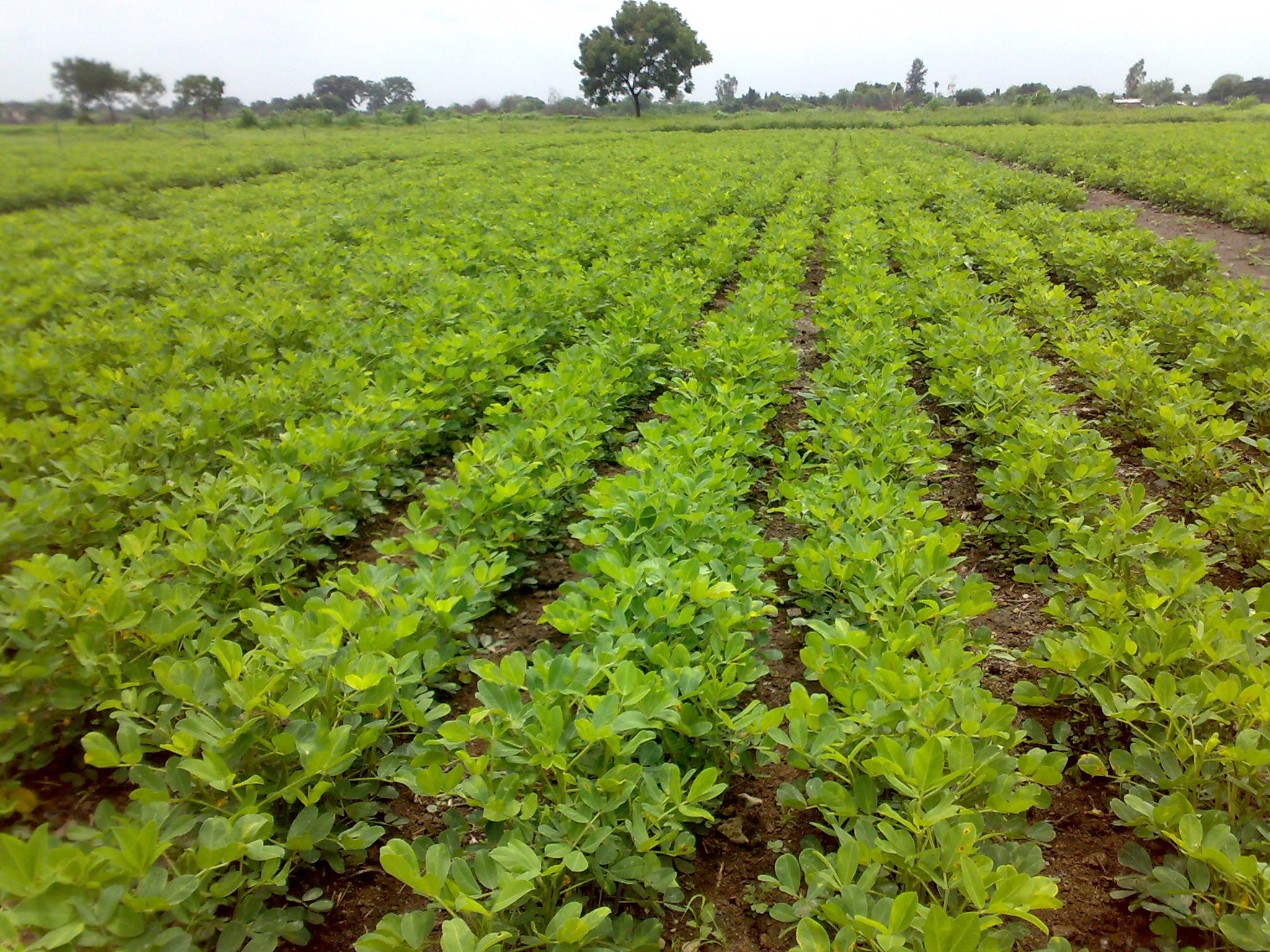 Cultivation of peanut crop in Junagadh region of Western India